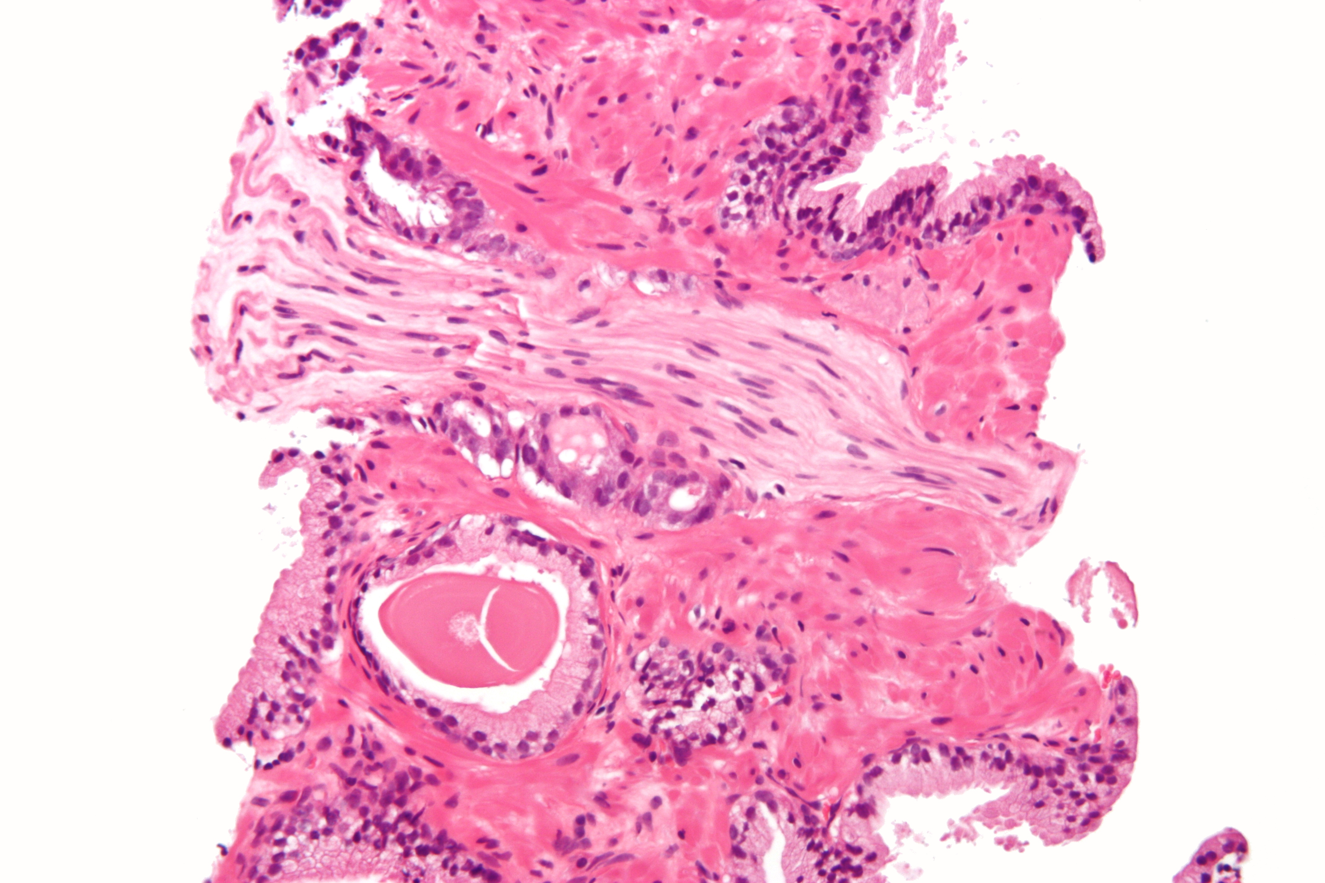 Micrograph of prostatic adenocarcinoma, conventional (acinar) type, the most common form of prostate cancer. Prostate biopsy. H&E stain.